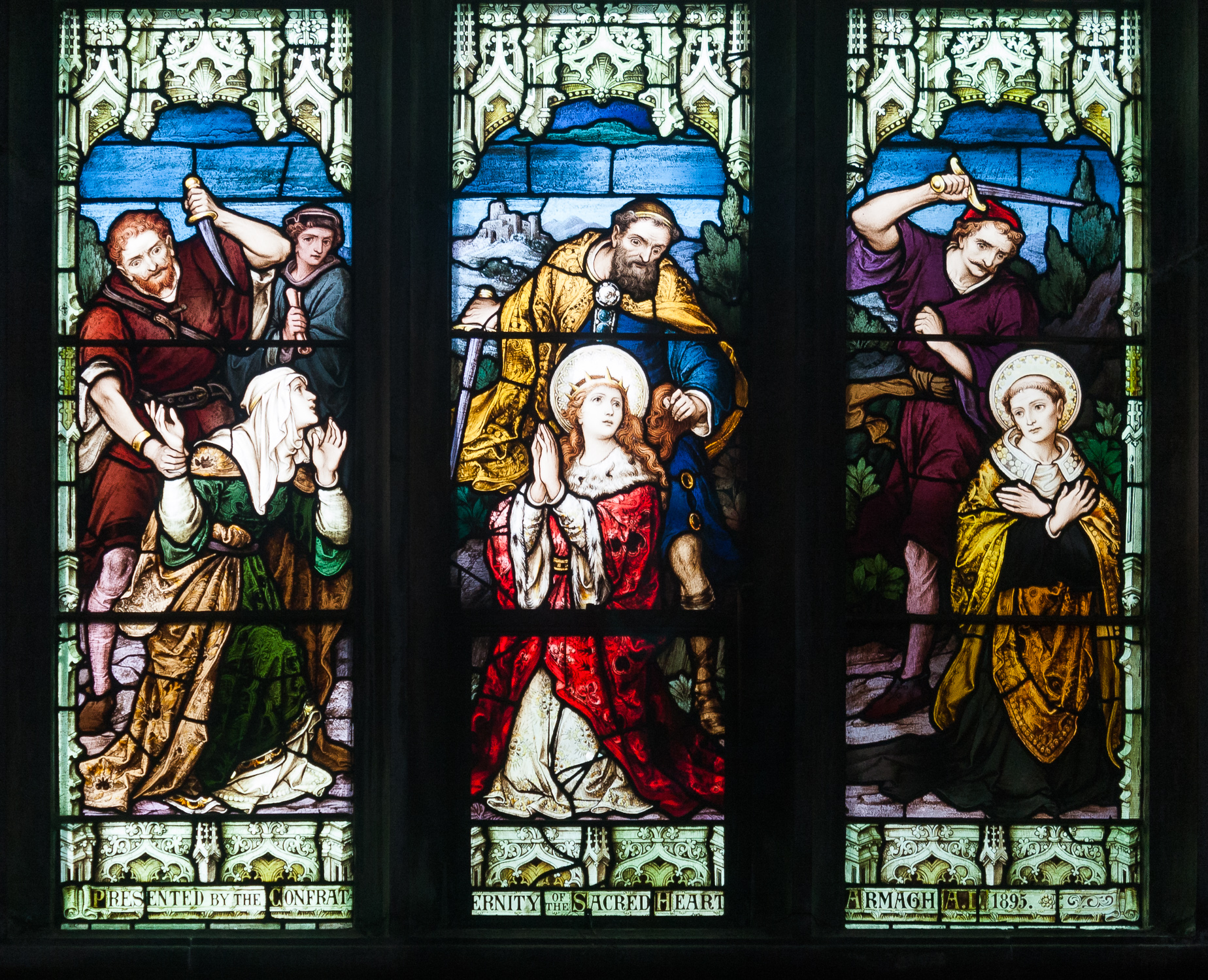 Lower lights of the second south-most stained glass window in the west aisle (liturgically south) by Meyer & Co. of Munich, depicting the martyrdom of St. Dympna.